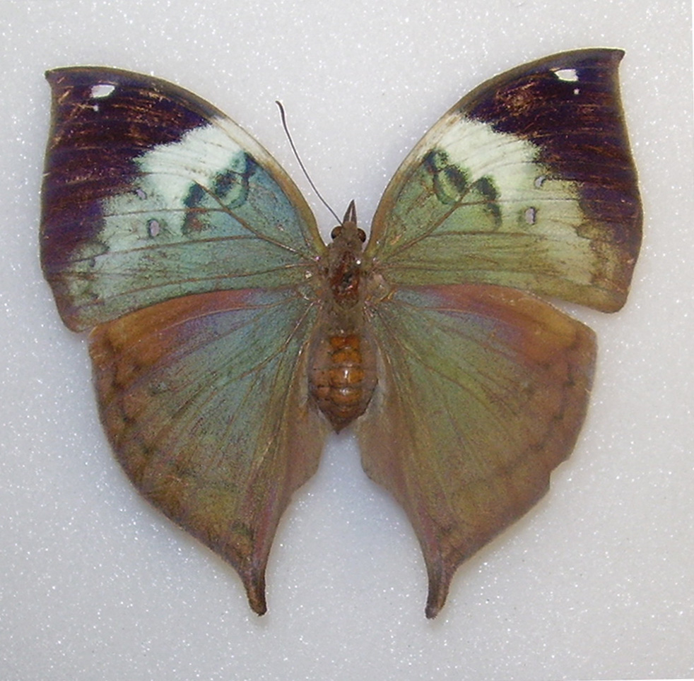 Kallima philarcha philarcha Westwood, 1848 Female, upperside. Ceylon Robert Tampleton Collection